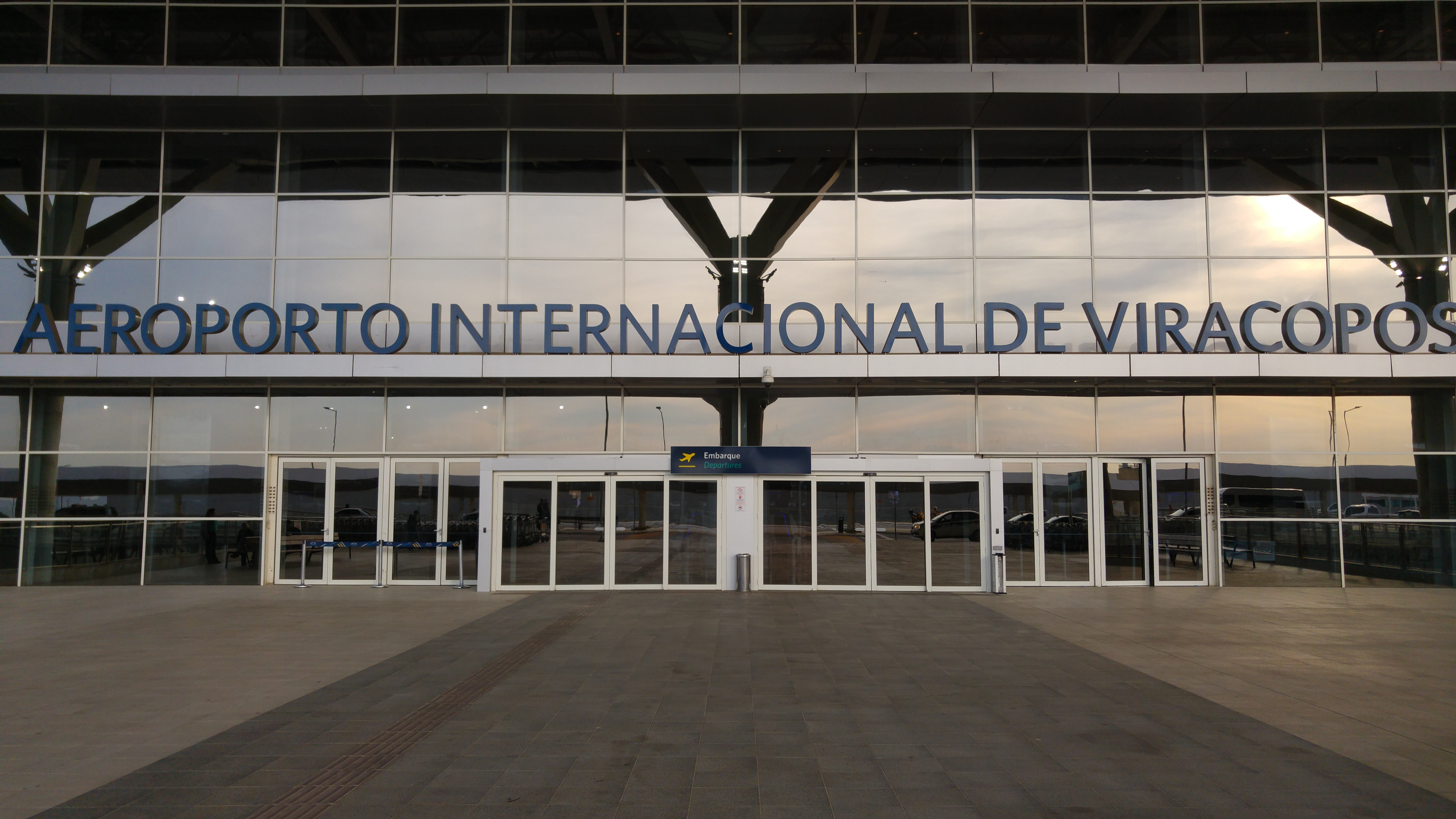 Viracopos International Airport Entrance.